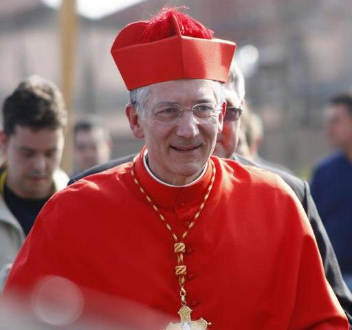 Ingresso del patriarca Francesco Moraglia. Mira (Ve), 24 marzo 2012